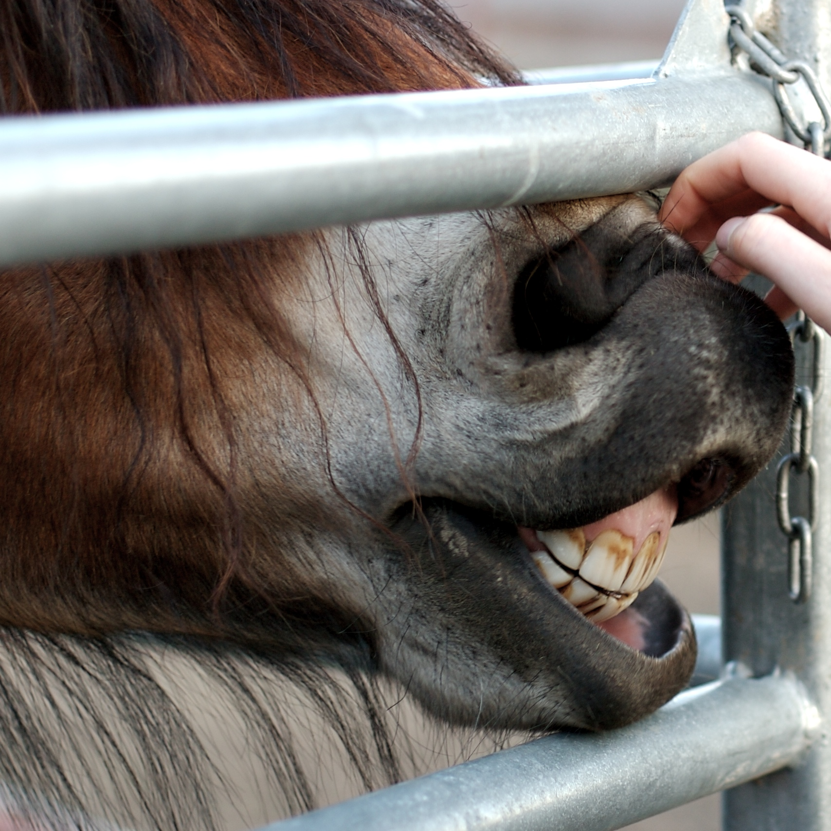 Taken at what i read in DN is " Stockholms only farm "